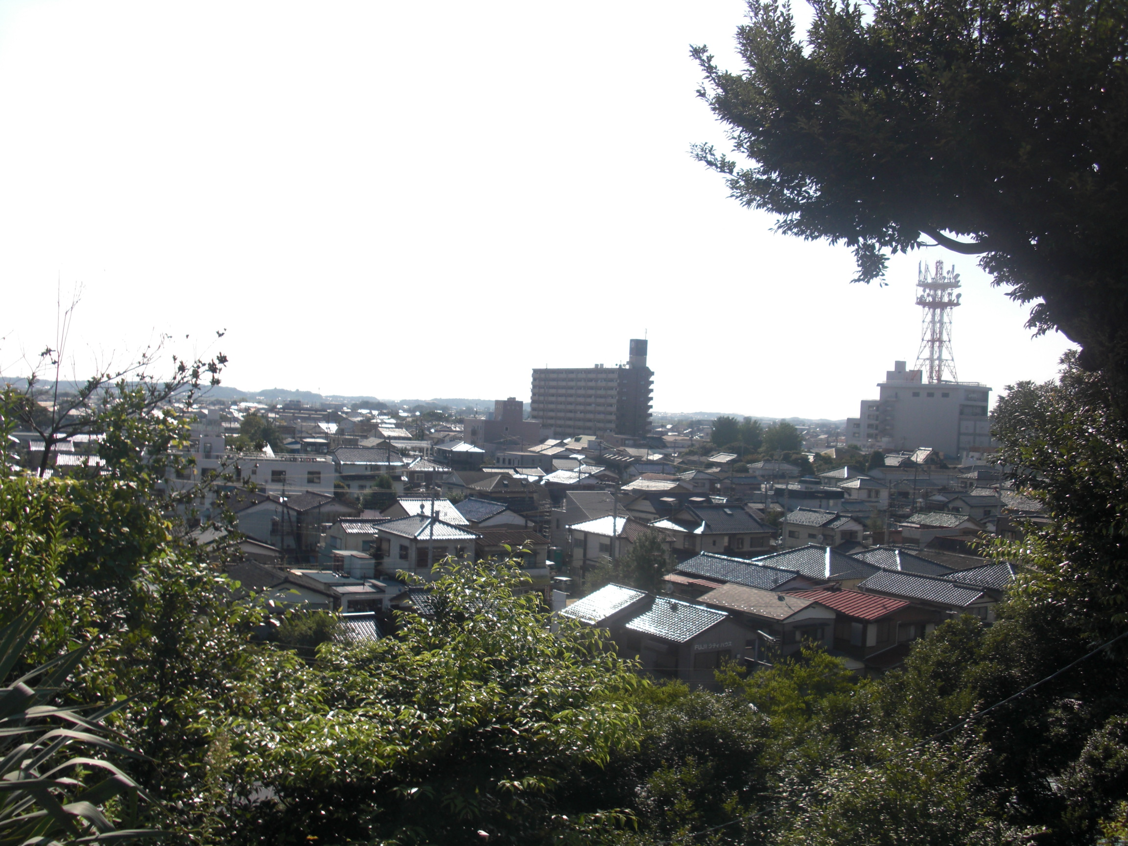 This is a landscape of the central Ryugasaki city from Ibaraki prefectural Ryugasaki second high school, which is located in Ibaraki, Japan.